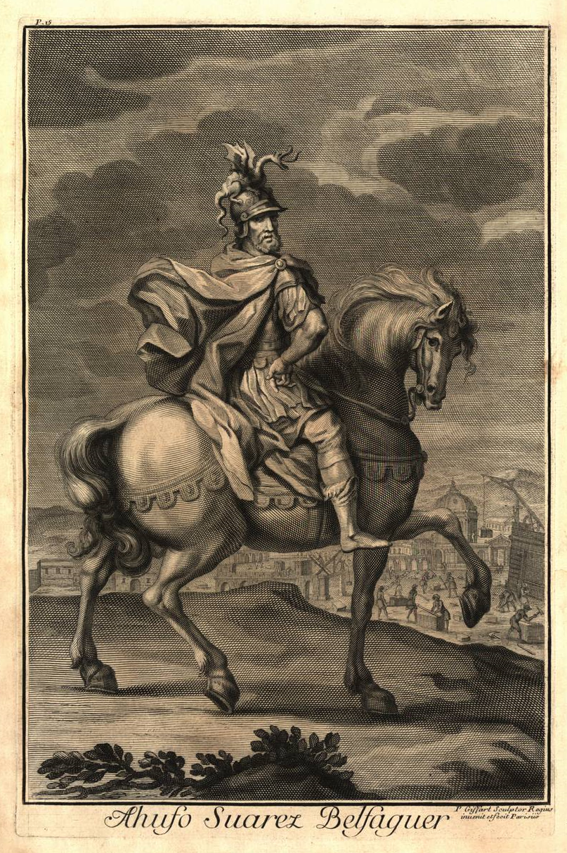 Ahufo Suarez Belfaguer (880–950), a medieval Portuguese knight.